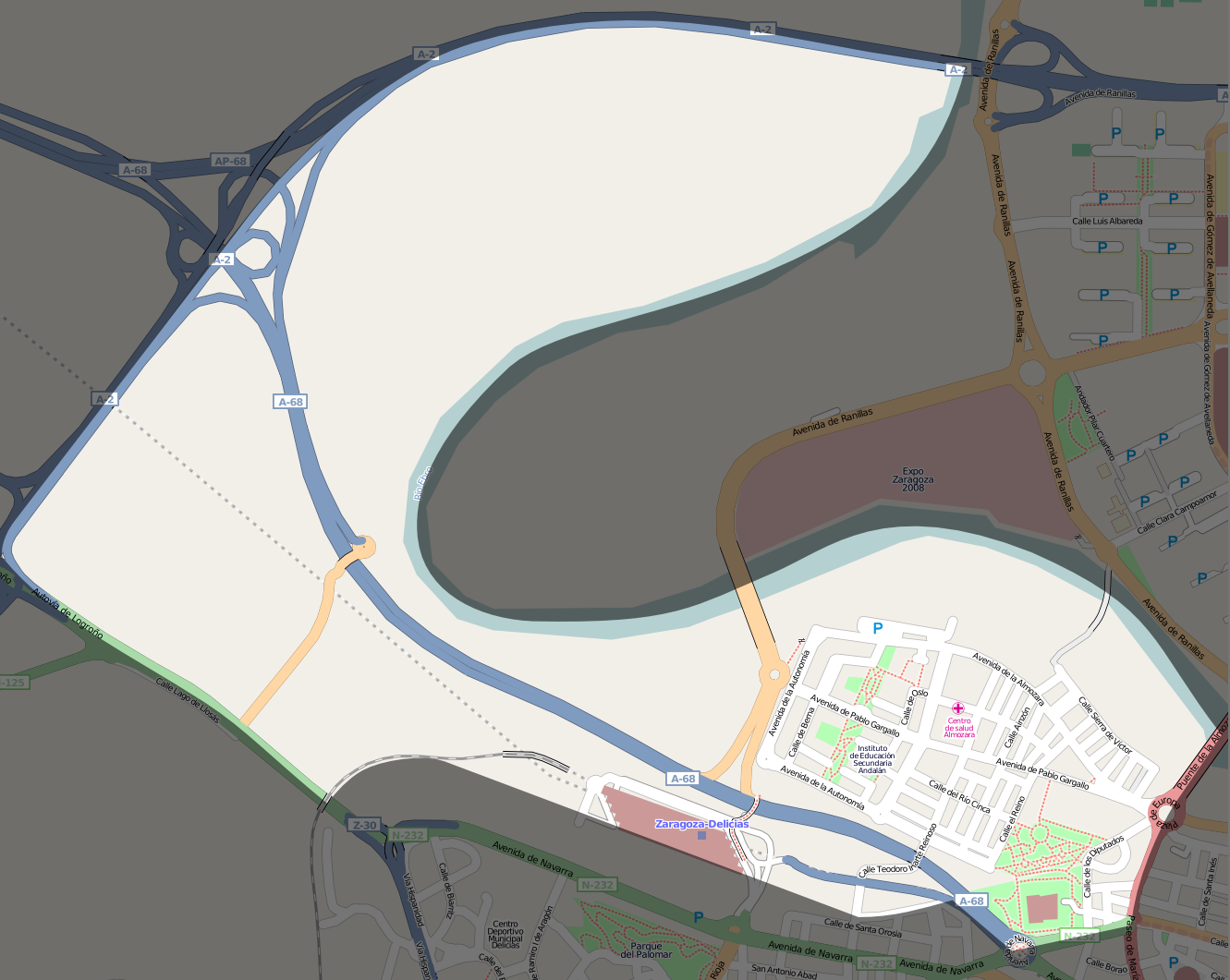 This map may be incomplete, and may contain errors. Don't rely solely on it for navigation.